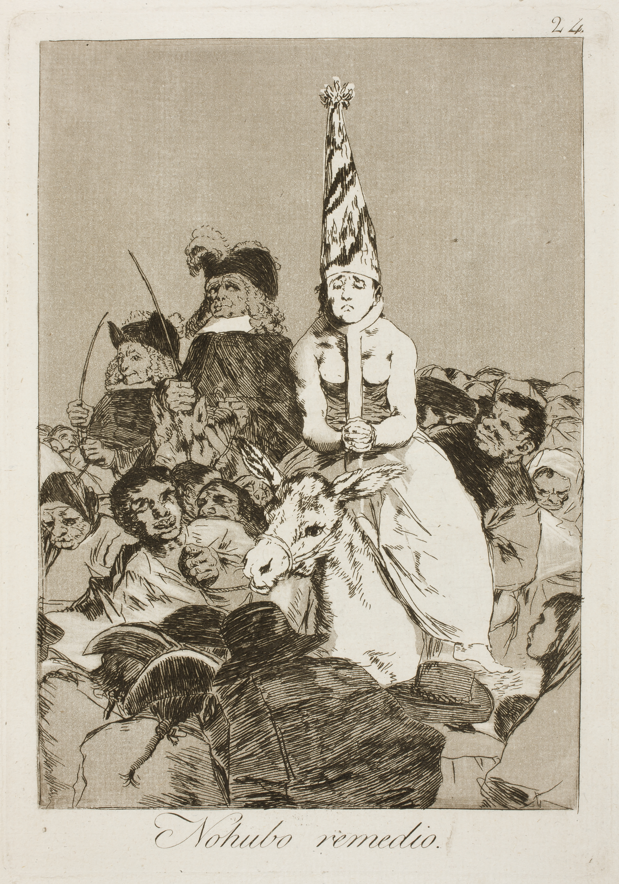 This print is work No. 24 of the "Caprichos" series (1st edition, Madrid, 1799).